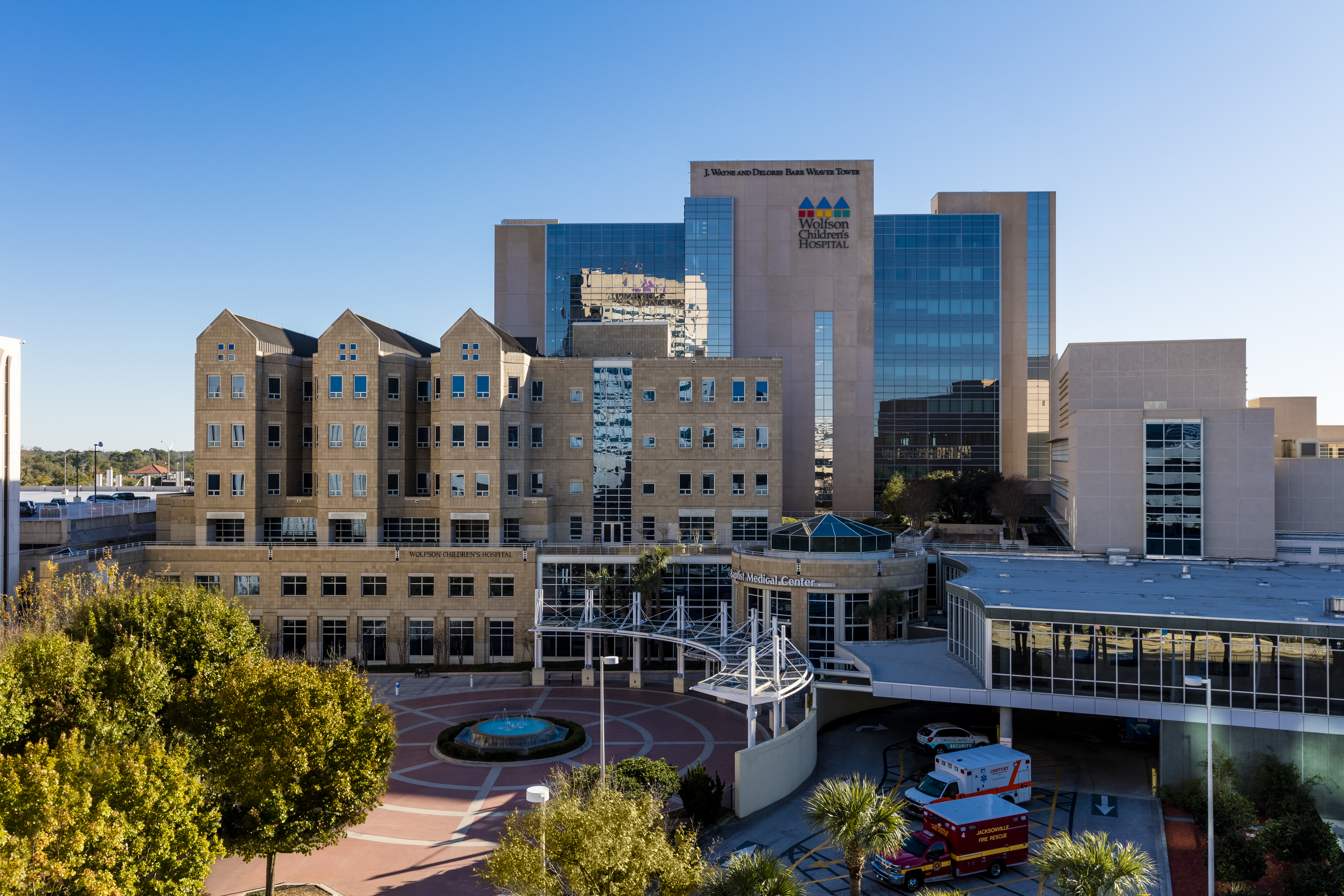 View of Wolfson Children’s Hospital at Baptist Medical Center Jacksonville. Year: 2016